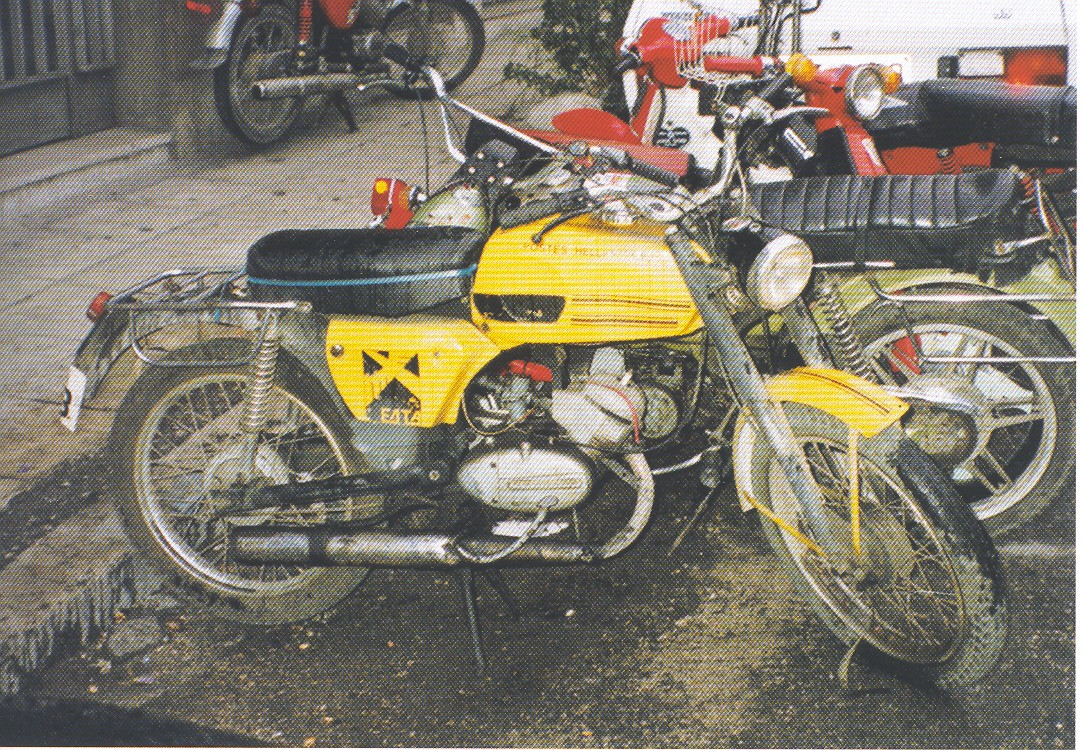 I took this picture of a Mebea Hermes motorbike (of the Hellenic Postal Service) in Patras in 1986